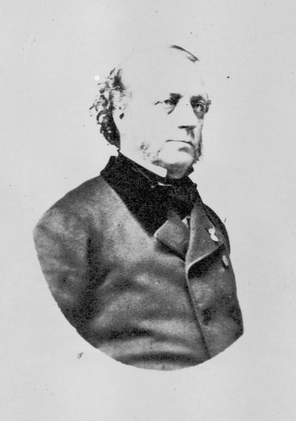 Albert Grisar (photo by Bernheim, 1860s?)